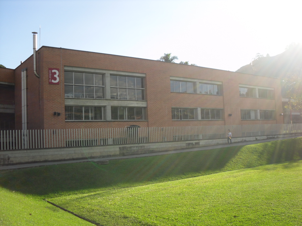 Centro de Laboratorios